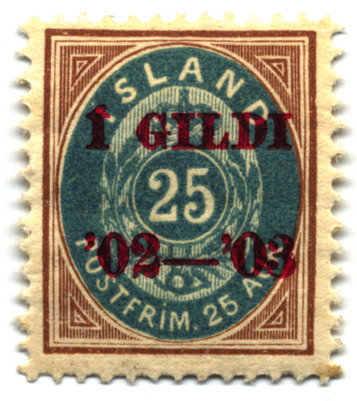 Scan of Iceland 25a "i gildi" overprint stamp of 1902